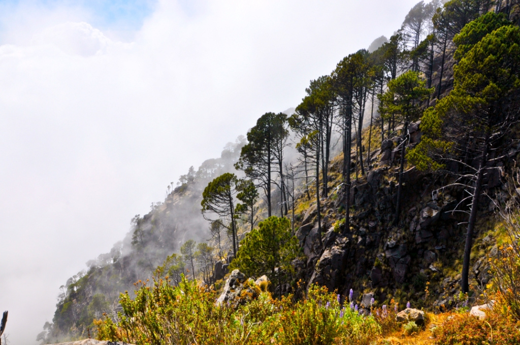 On the slopes of Tacana Volcano.